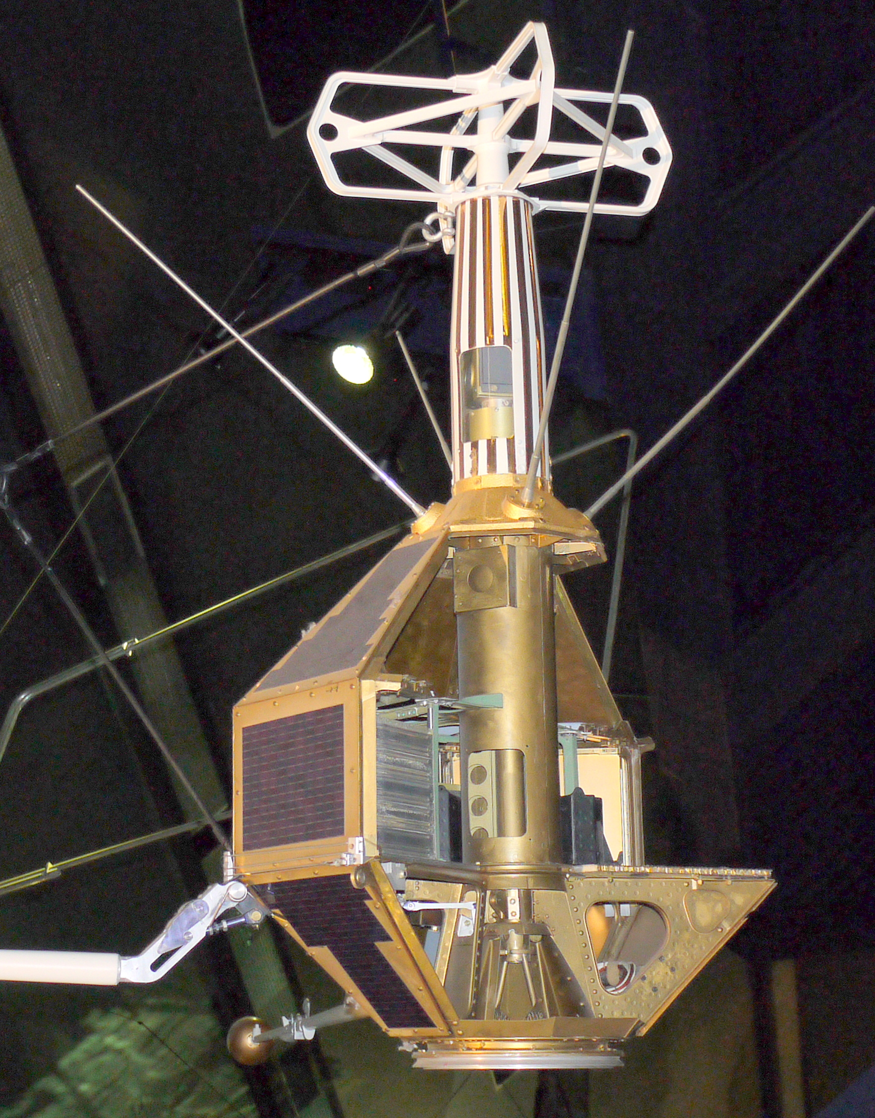 Mockup of the first french research satellite FR 1 (1965), Museum of Air and Space Paris, Le Bourget (France)